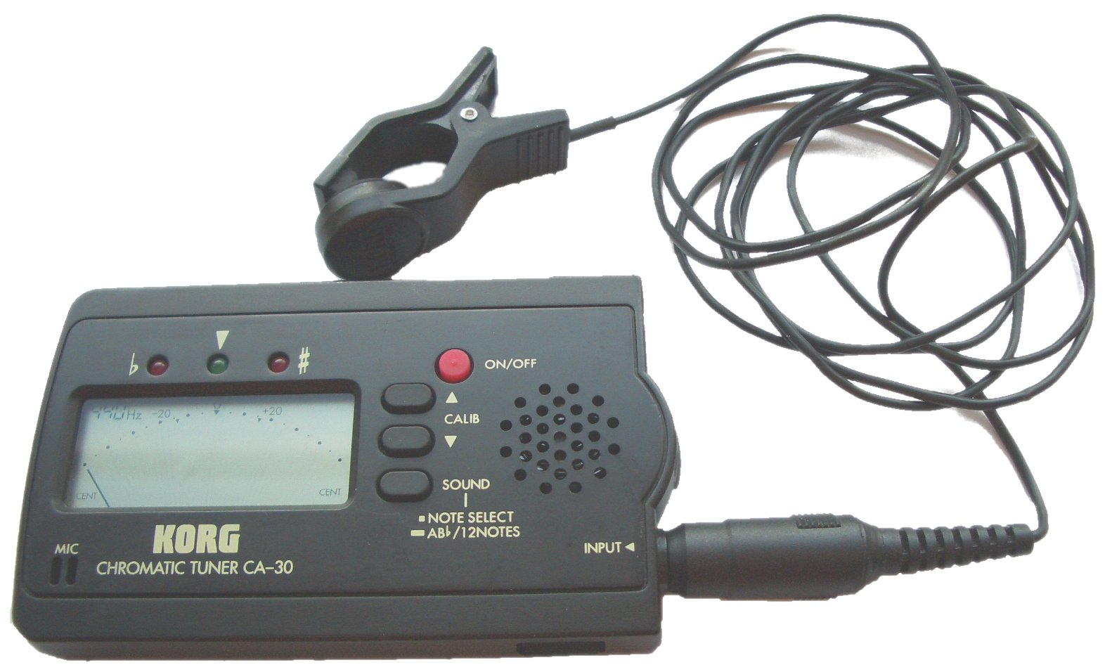 Chromatic Tuner with Pickup